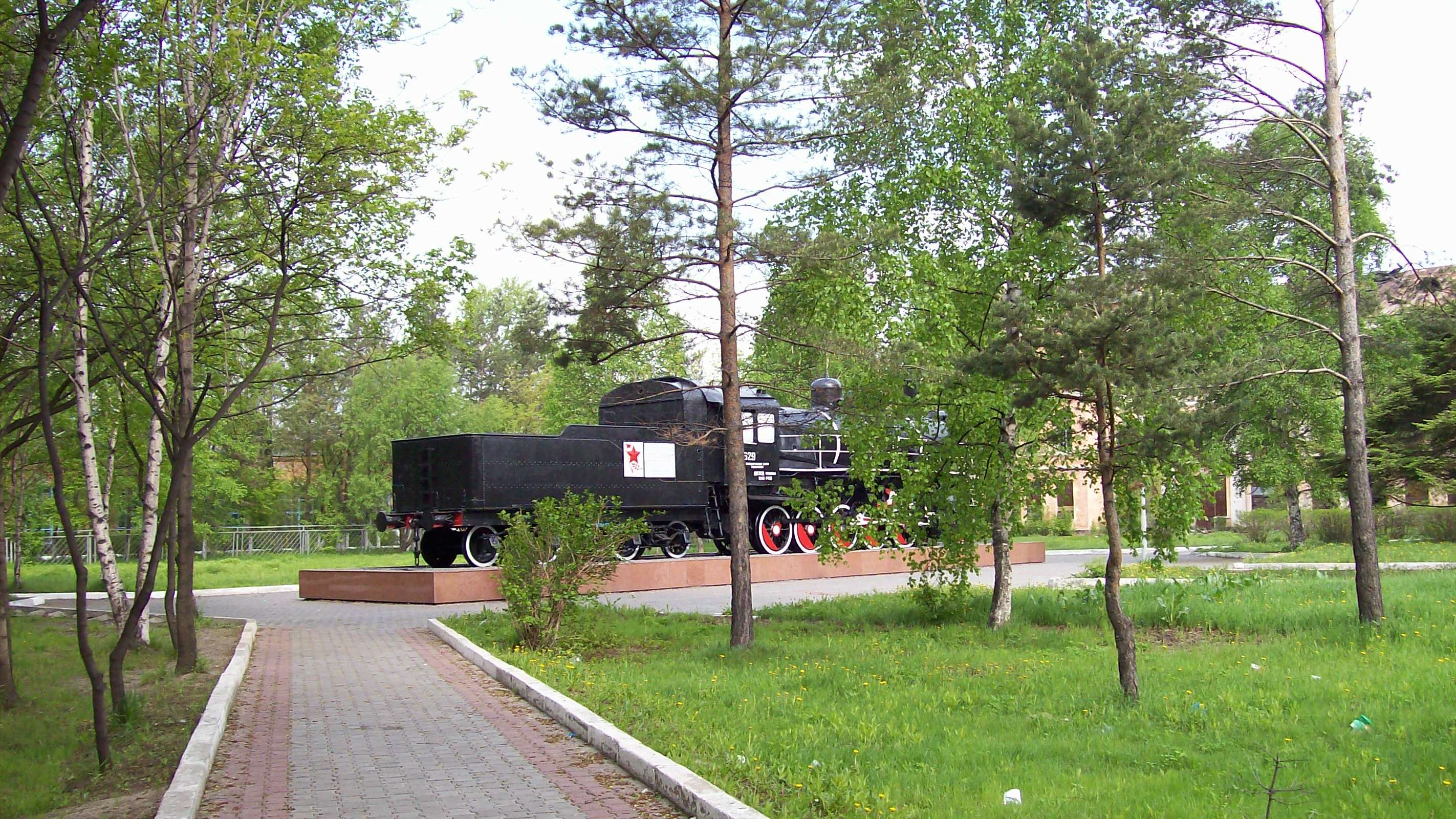 Фотография паровоза Ел-629 на станции Уссурийск